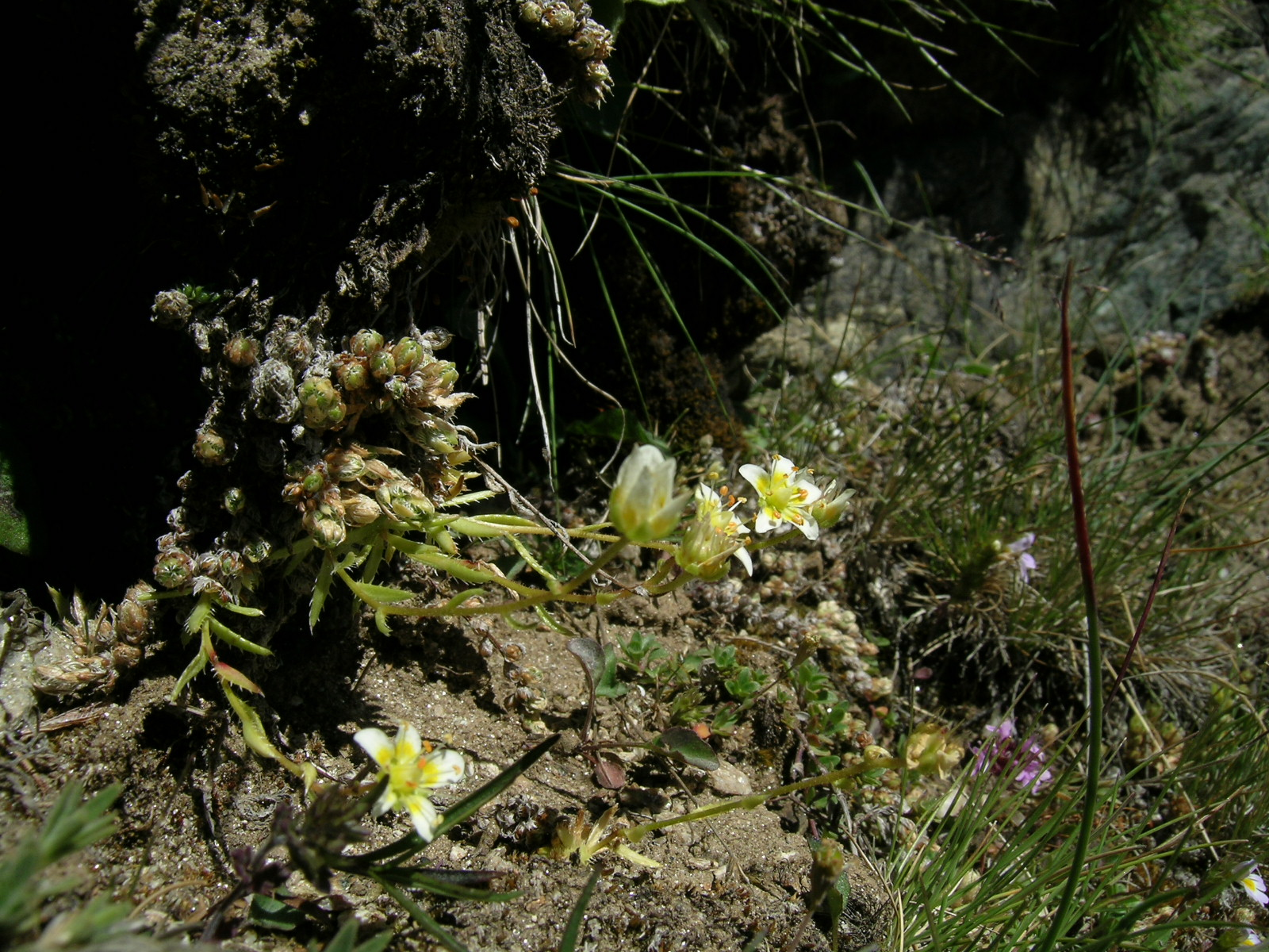 Saxifraga aspera Zermatt, beneath Gornergrat (Kanton Wallis, Switzerland), 2800 m Author: Roland Teuscher – own photograph Date: 2.08.06